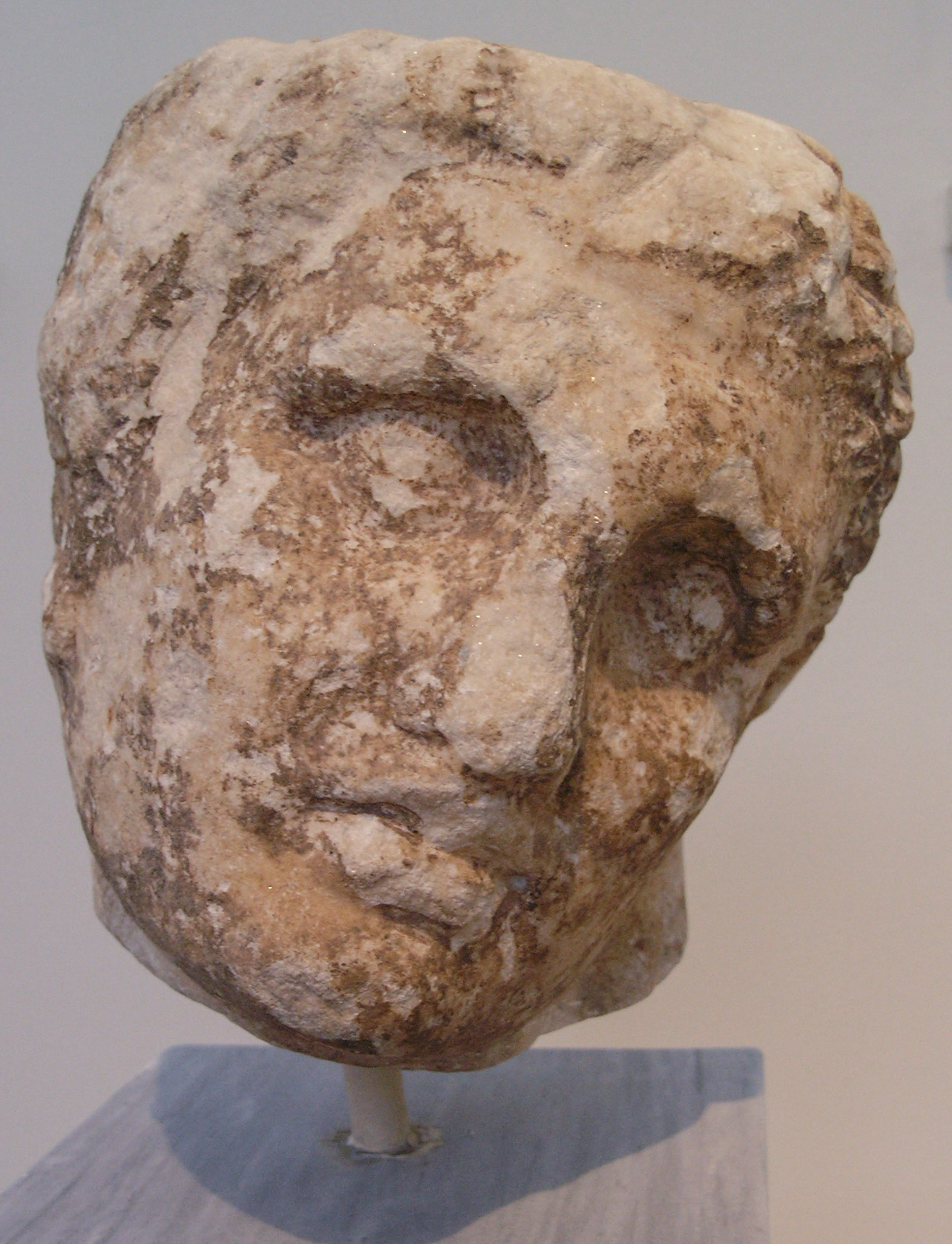 From the Athena Alea temple in Tegea. From the East pediment bearing a Calydon boar hunt. By Skopas. Ca. 350-330 BC.